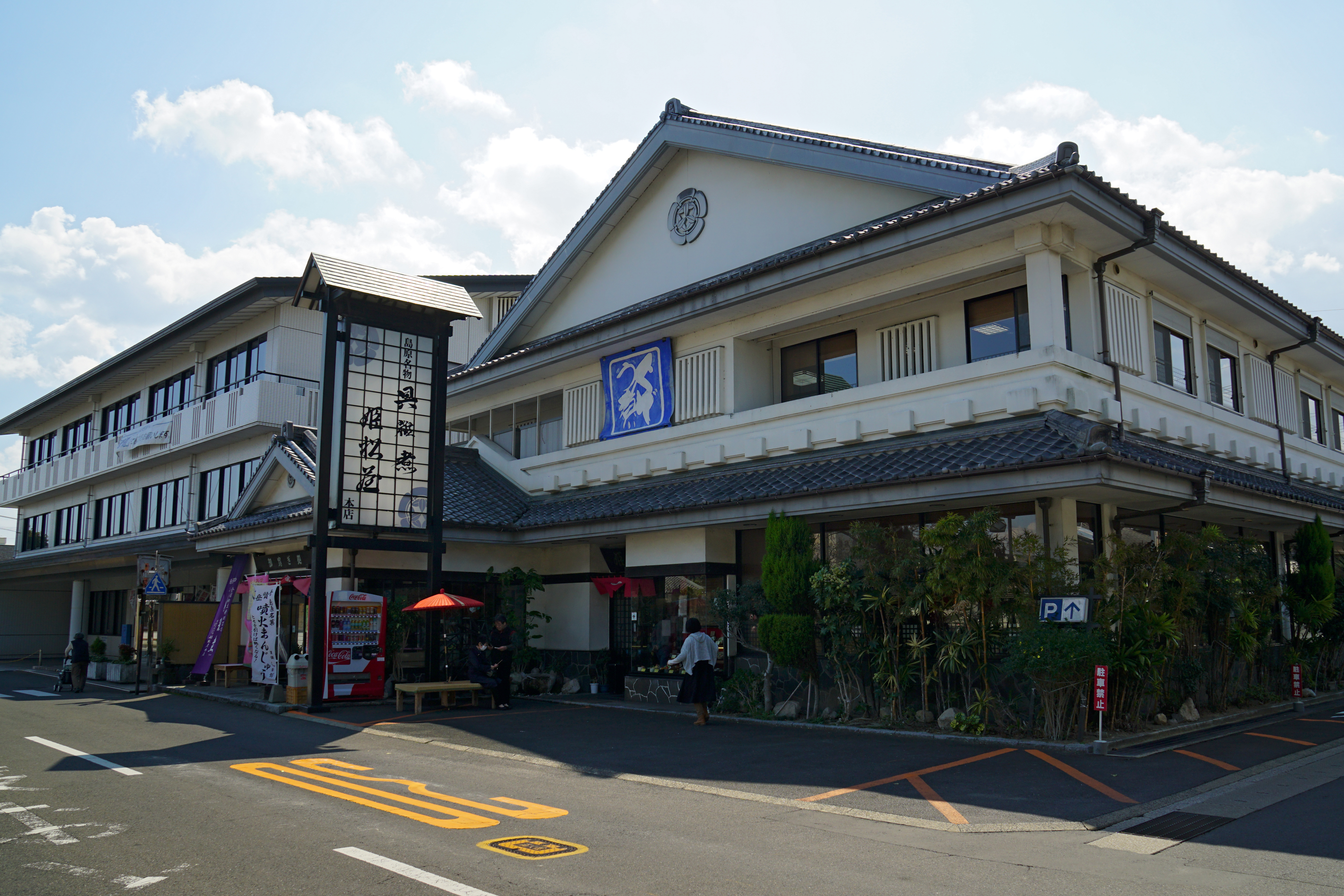 Restaurant Himematsuya in Shimabara, Nagasaki prefecture, Japan.